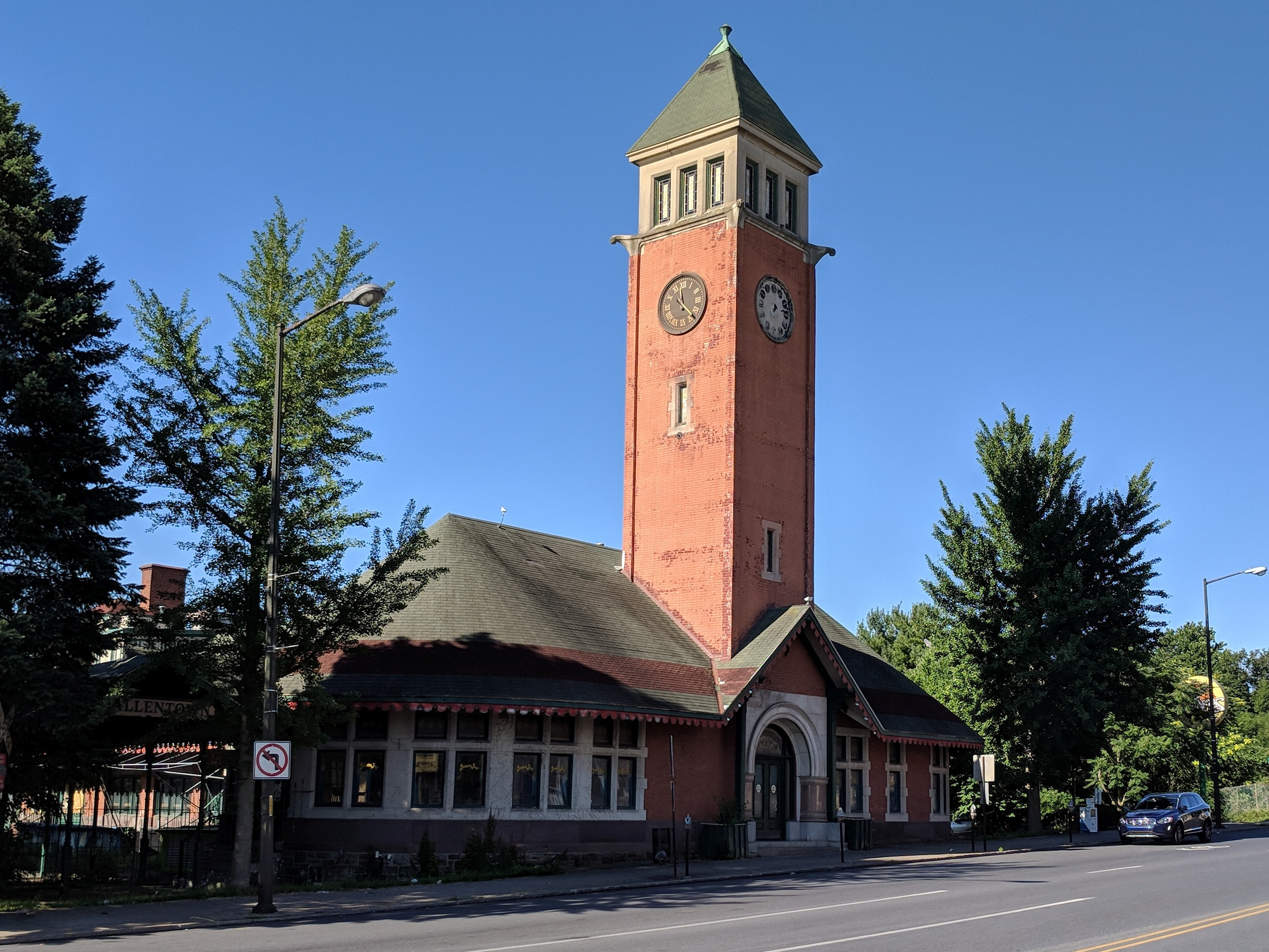 A photo of the former Central RR of New Jersey station on Hamilton Street in Allentown, Pennsylvania, taken in 2018